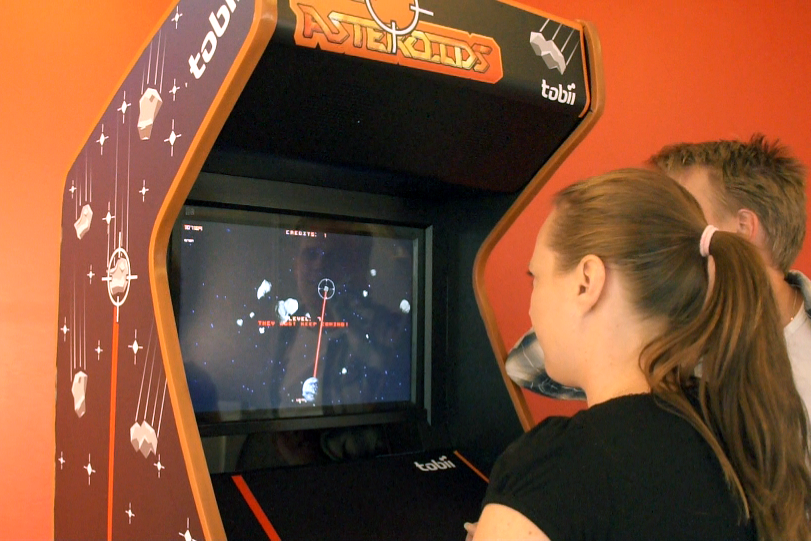 Tobii EyeAsteroids eye control arcade game